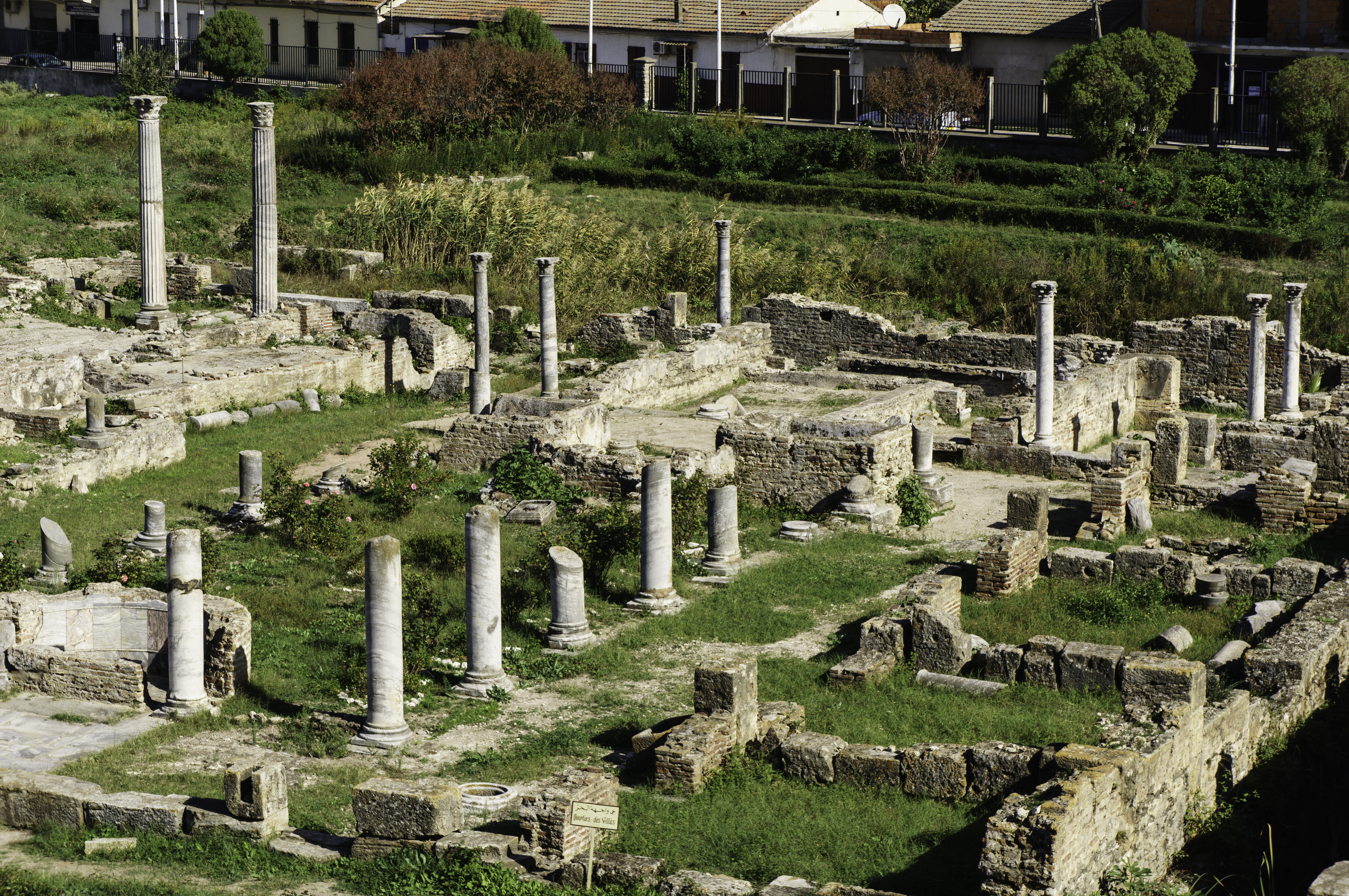 Roman ruins at Hippo Regius (Annaba)